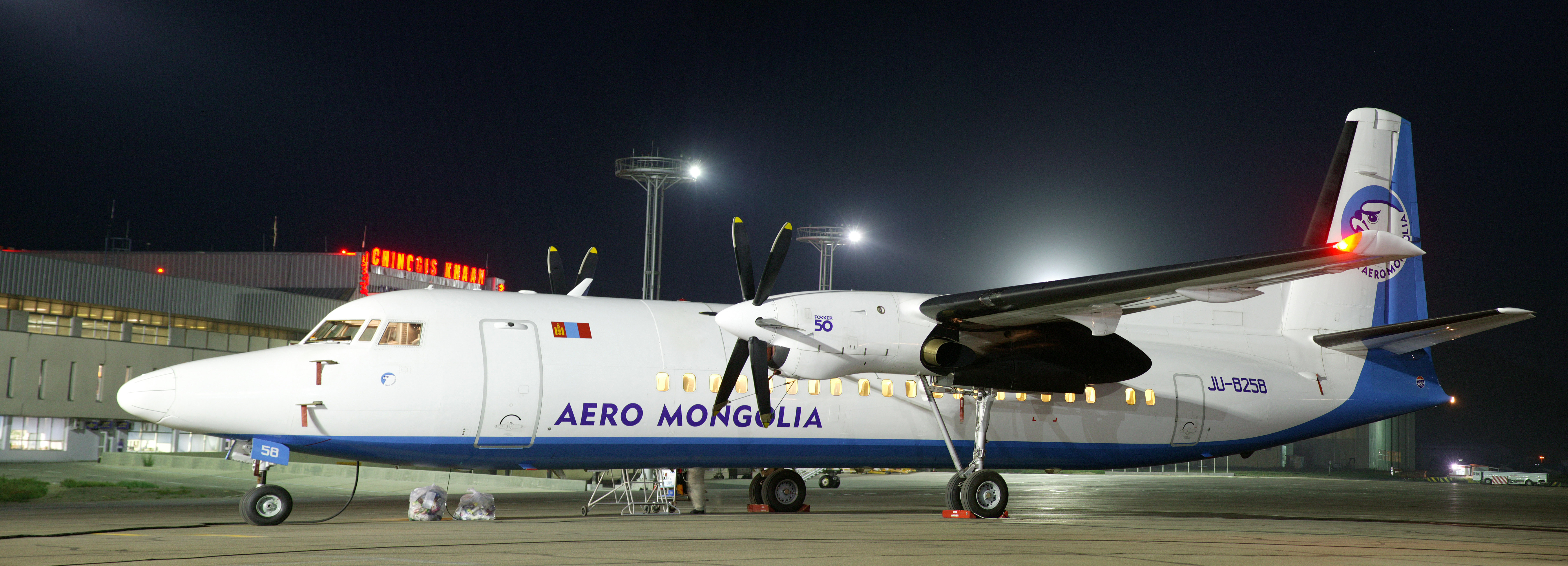 Fokker 50 midnight